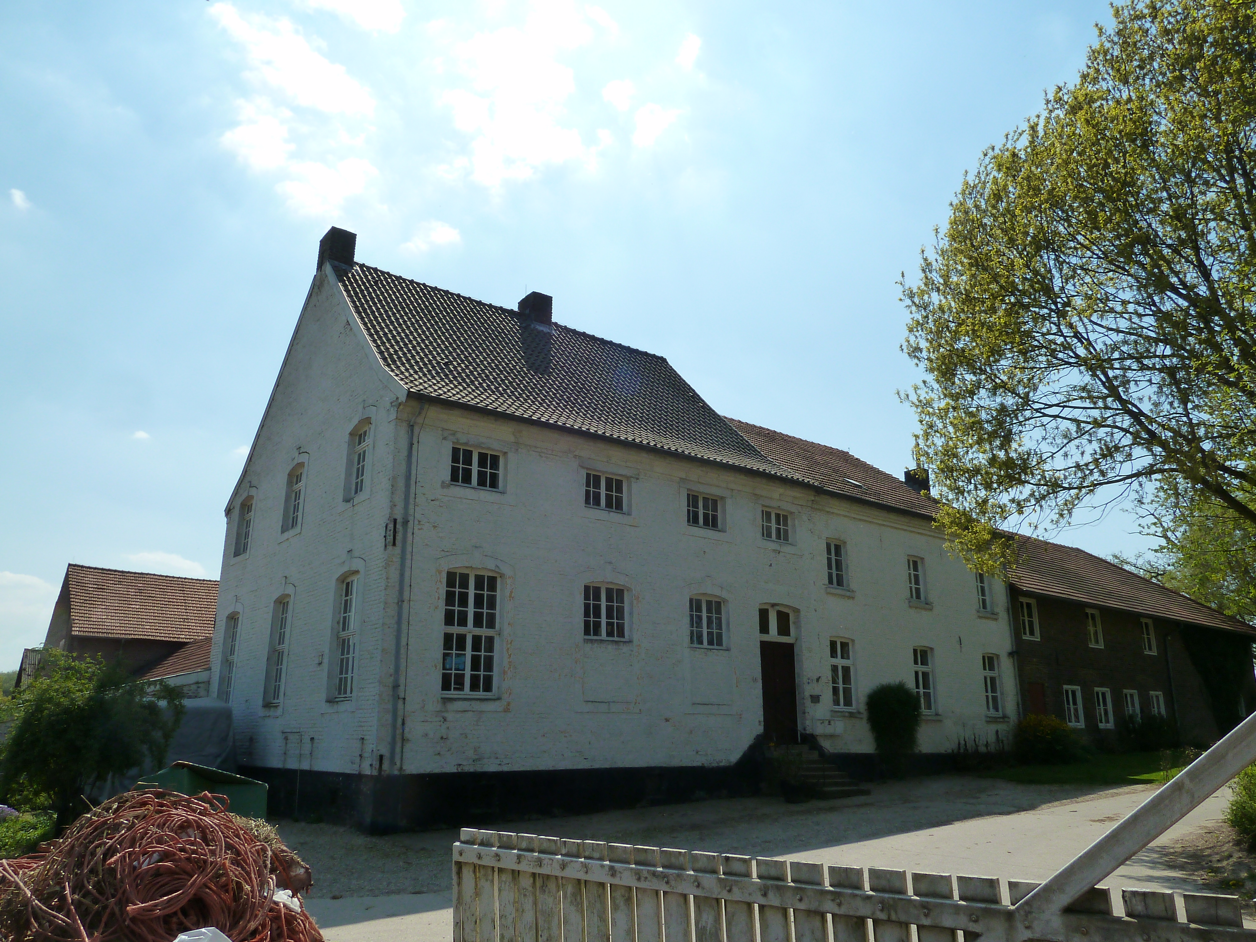 Akkerweg 5, Brunssum, Limburg, the Netherlands